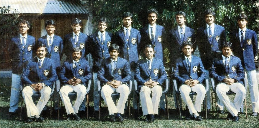 Bangladesh made debut in international Cricket through Asia cup in 1986 . It is the picture of that historic team .